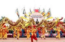 lễ hội